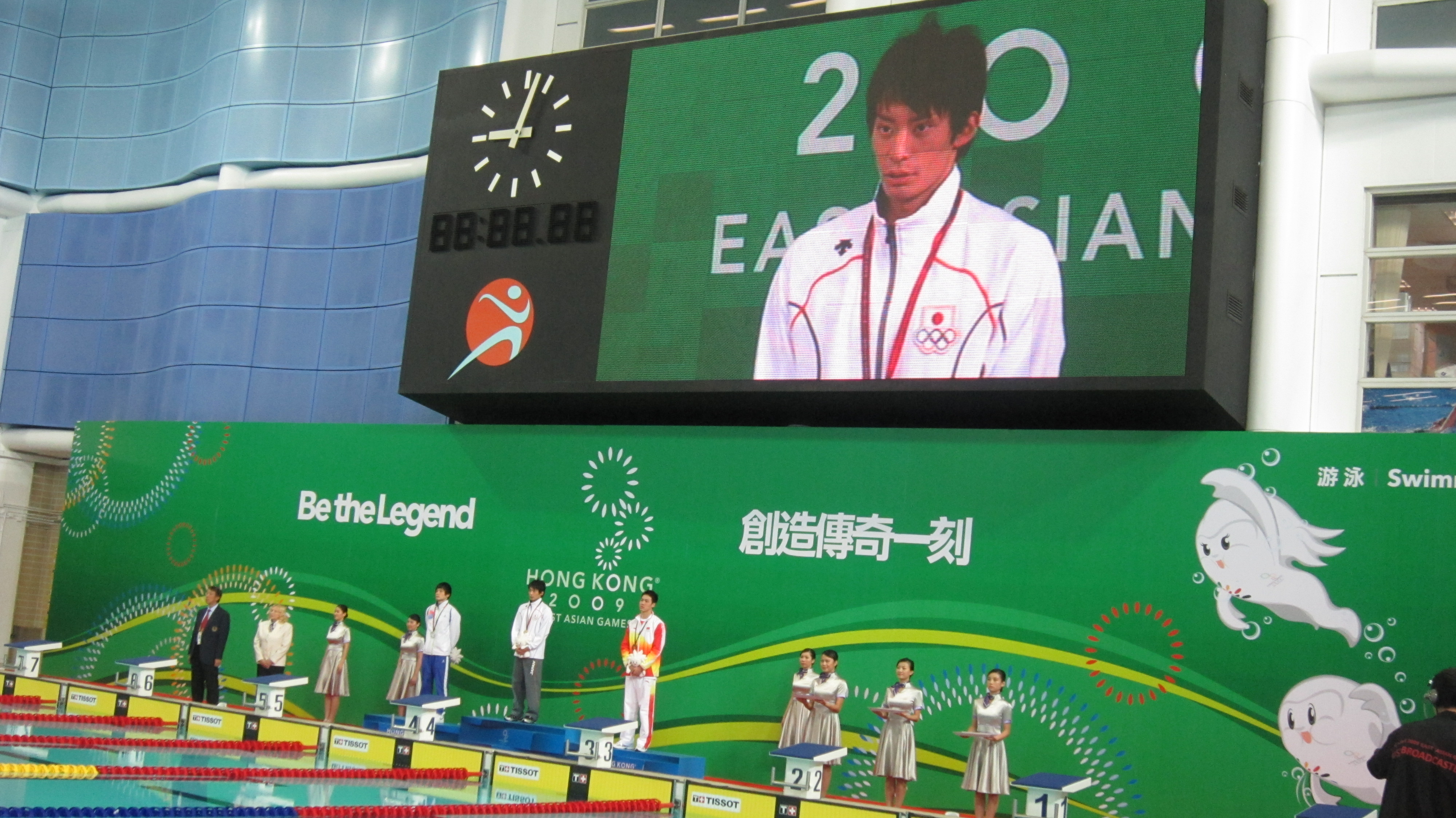 Irie Ryosuke in the Victory Ceremony of Man 200M backstroke during Hong Kong East Asian Games